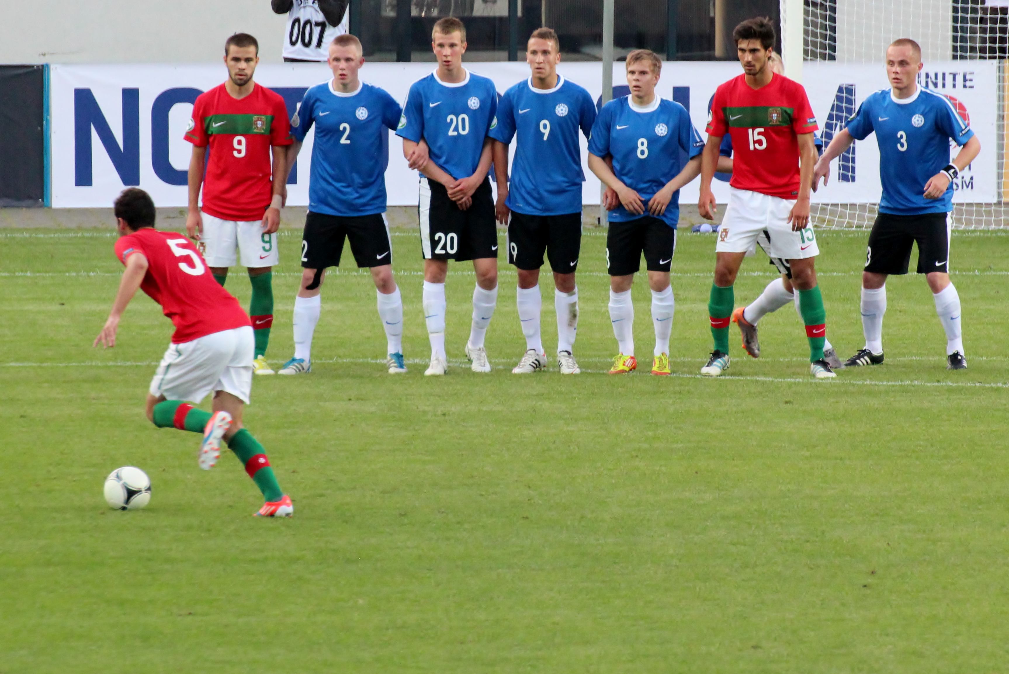 Estonia and Portugal playing football